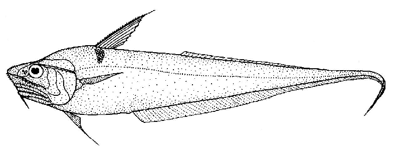 Coryphaenoides armatus (Abyssal grenadier)